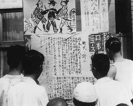 Honjo Incident